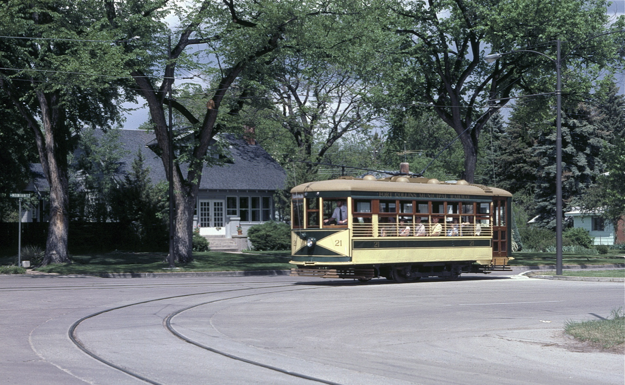 Fort Collins, Colorado streetcar 21, a 1919 Birney-type streetcar, starting to turn onto Roosevelt Avenue from Mountain Avenue in 1987, on the heritage trolley line that opened in December 1984. Car 21 was built by the American Car Company, a subsidiary (after 1902) of the J. G. Brill Company.